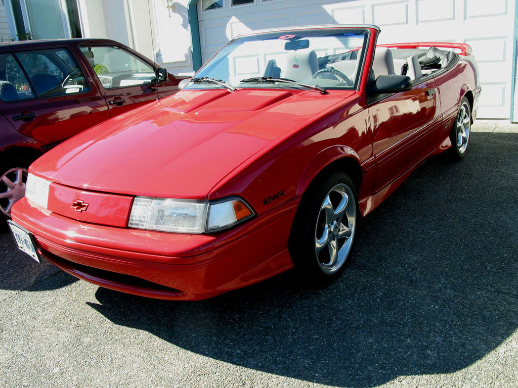 1993 Chevrolet Cavalier Z24. Photo by: C.McDonald